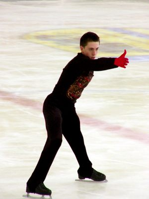 Elliot Hilton during his free skate at the 2004 Junior Grand Prix event in Germany